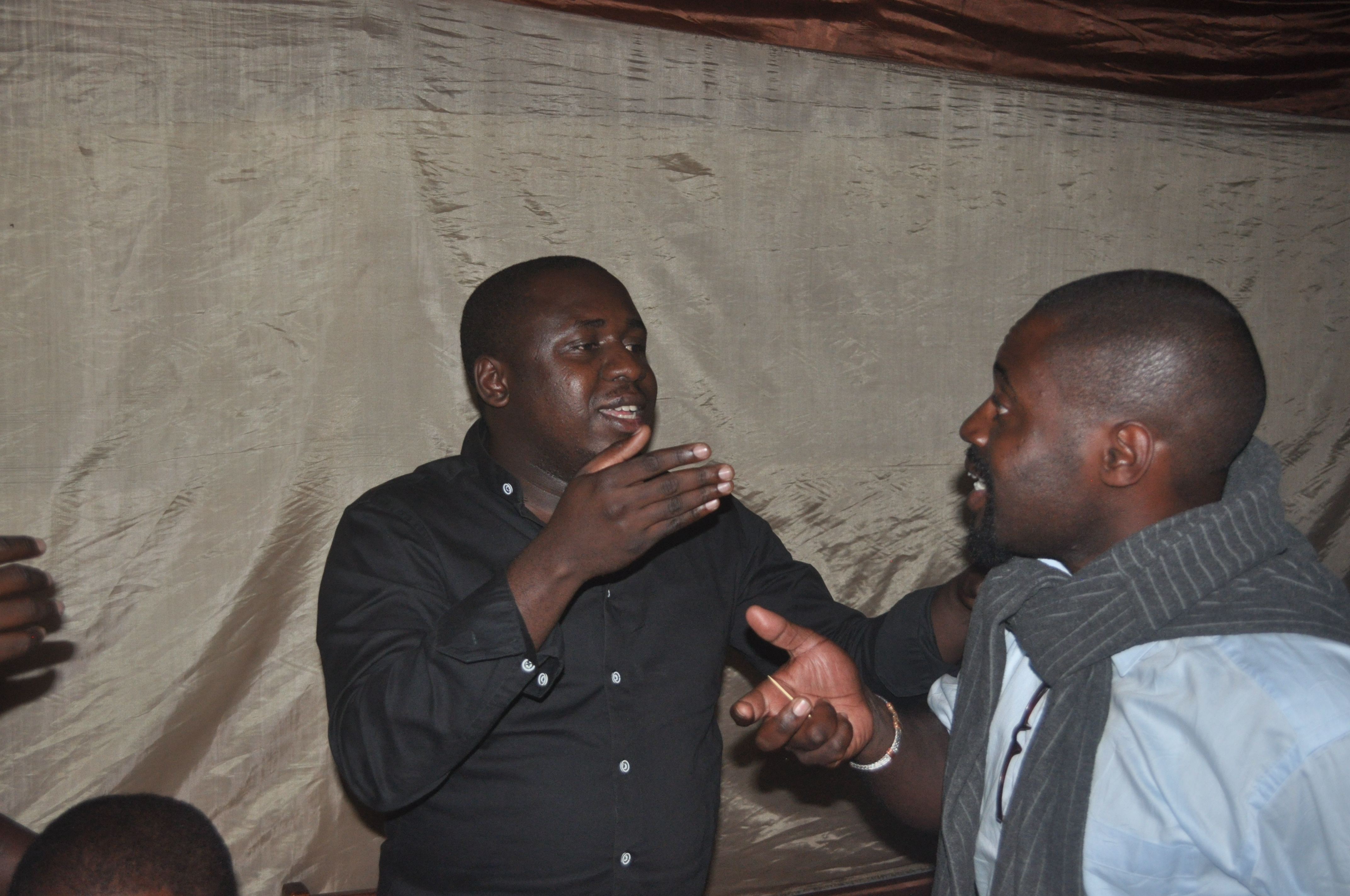 Arguing with both a friend and business partner This is an image of "African people at work" from Democratic Republic of the Congo